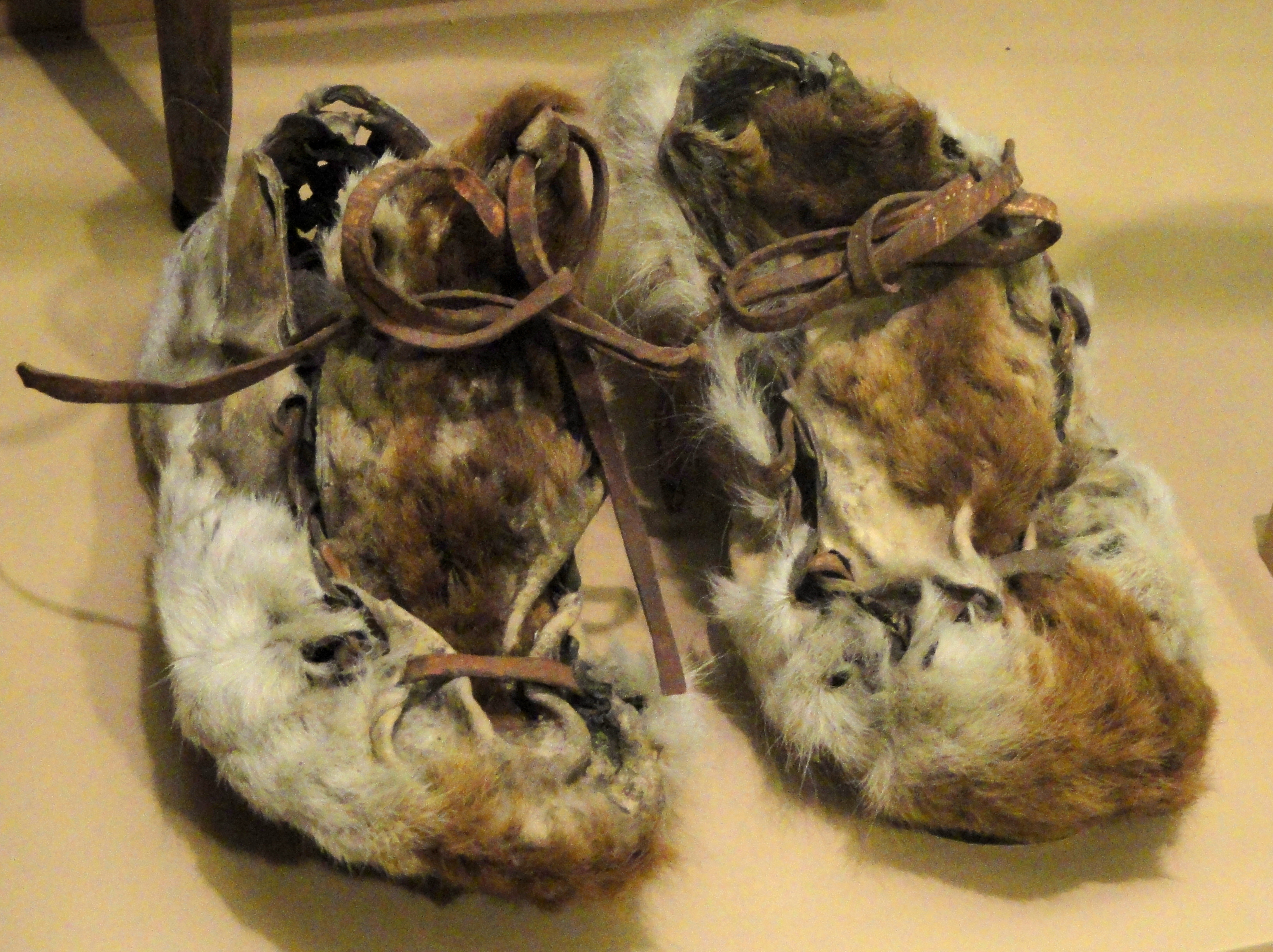 Exhibit in the South American collection of the American Museum of Natural History, Manhattan, New York City, New York, USA.